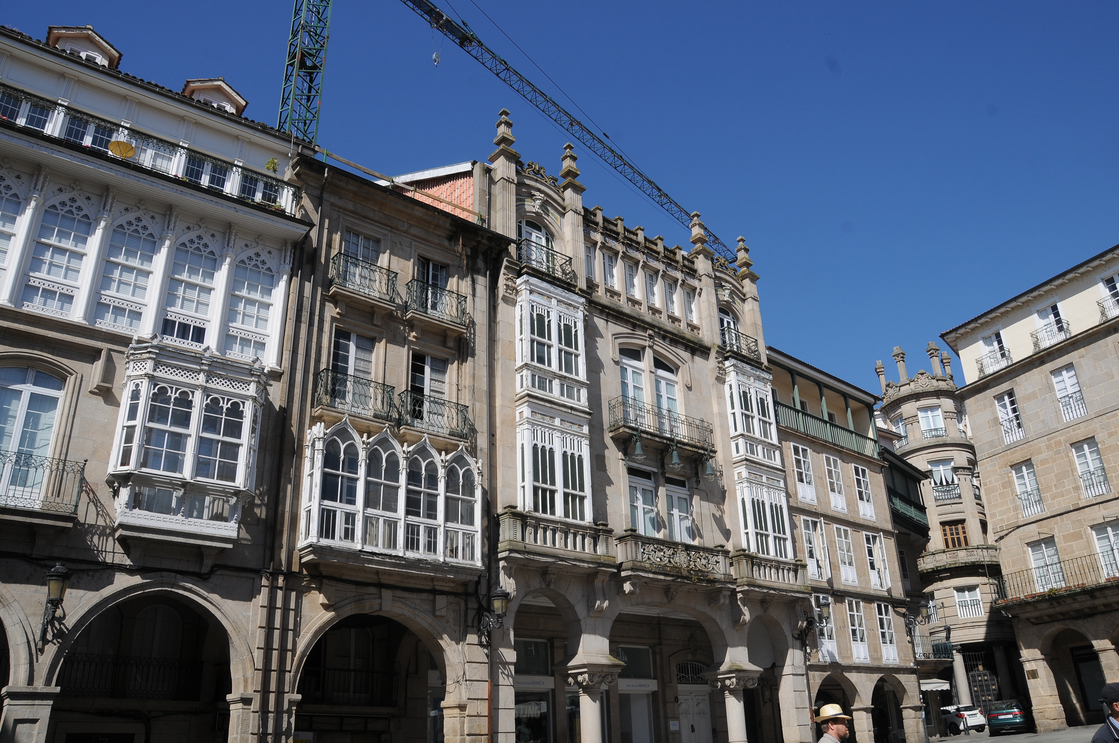 Praza Maior, Ourense, Spain.